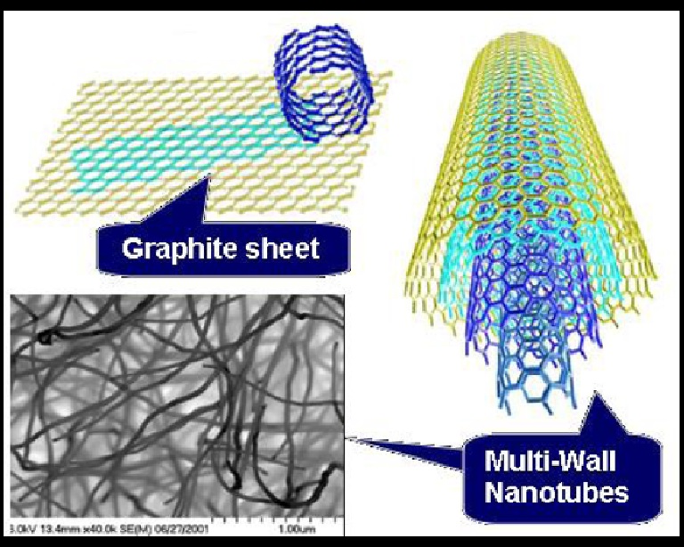 Graphite sheet of nanotubes